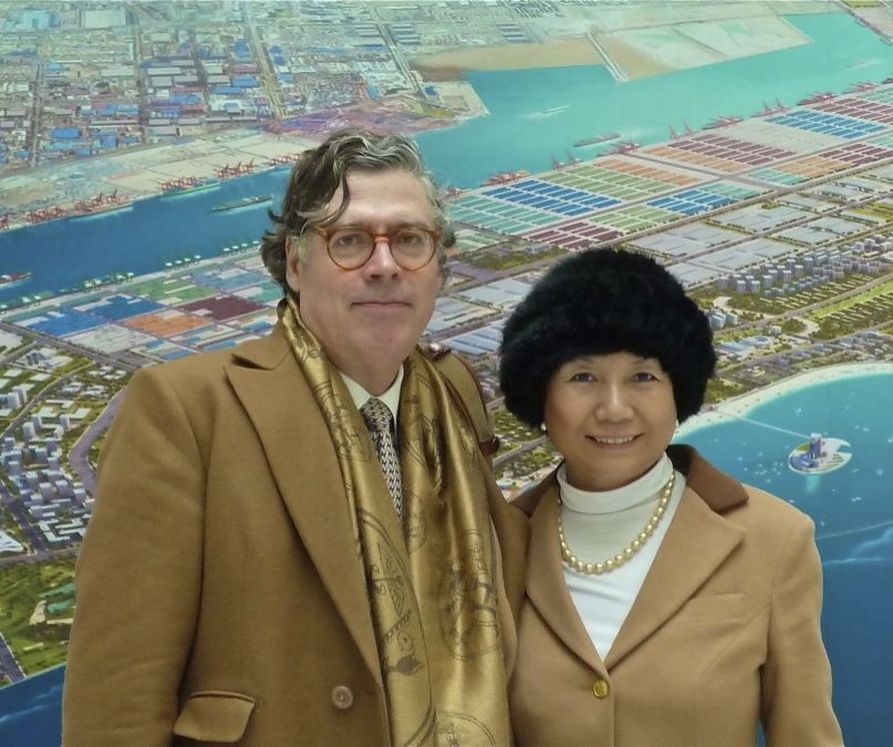 John Milligan-Whyte and Dai Min